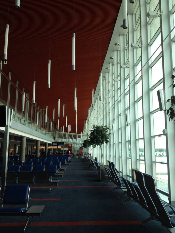 New terminal of Buenos Aires-Ezeiza International airport.